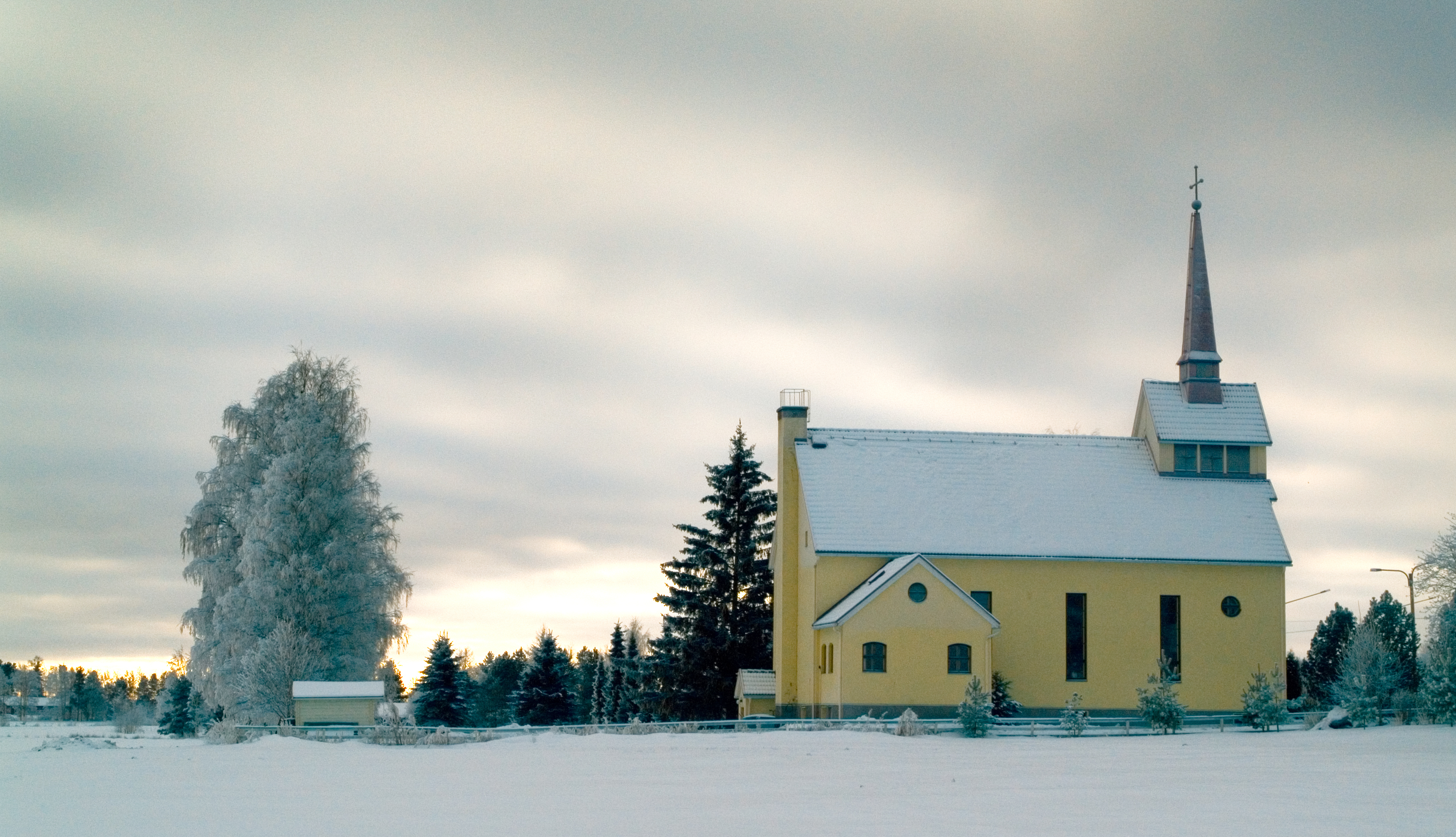 Side view of the village church in Kitinoja, Seinäjoki, Finland (formerly Kitinoja, Ylistaro). Architect Kauno Kallio, 1952.